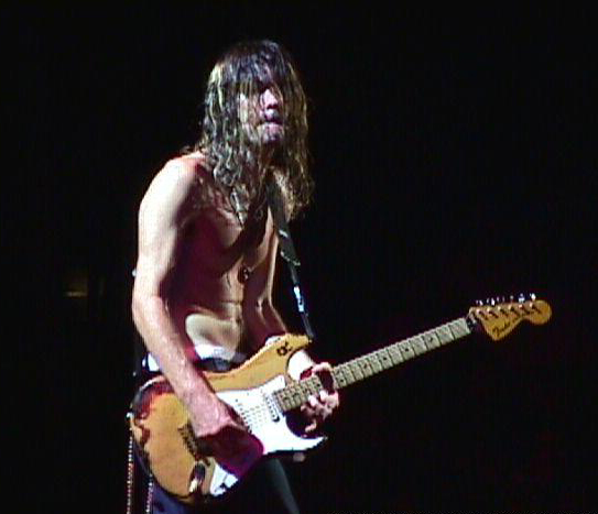 photo of Joe Ozzfest 98